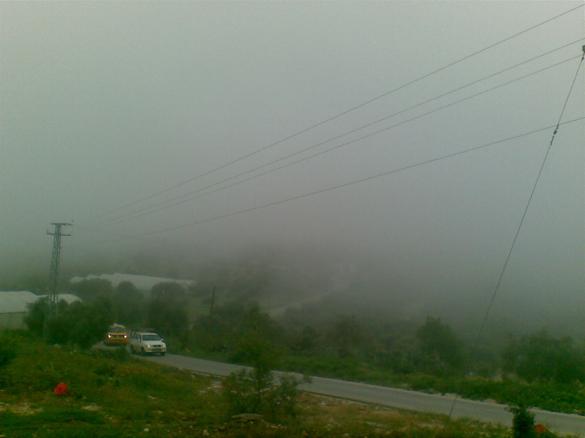 المدخل الشرقي